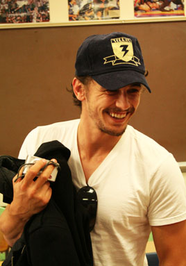 Palo Alto High School, CA, graduate James Franco visits Paly for a day of observation.